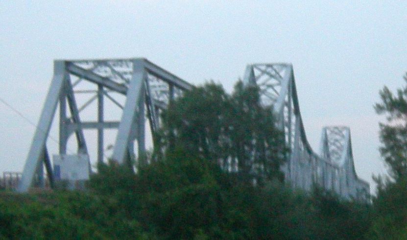 Bridge on river Sava, on Bosnian-Serbian border in village Rača.